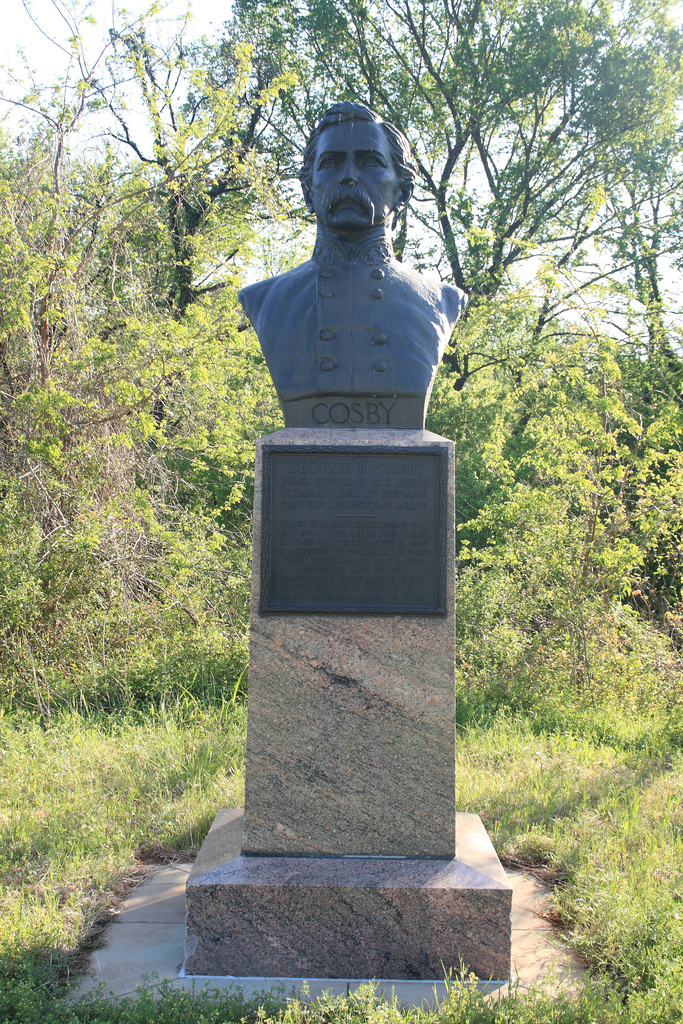 Image of the bust of Brigadier General George Cosby of the Confederate States Army, by Anton Schaaf. Erected: June 1915. Located: Vicksburg National Military Park, Vicksburg, Mississippi